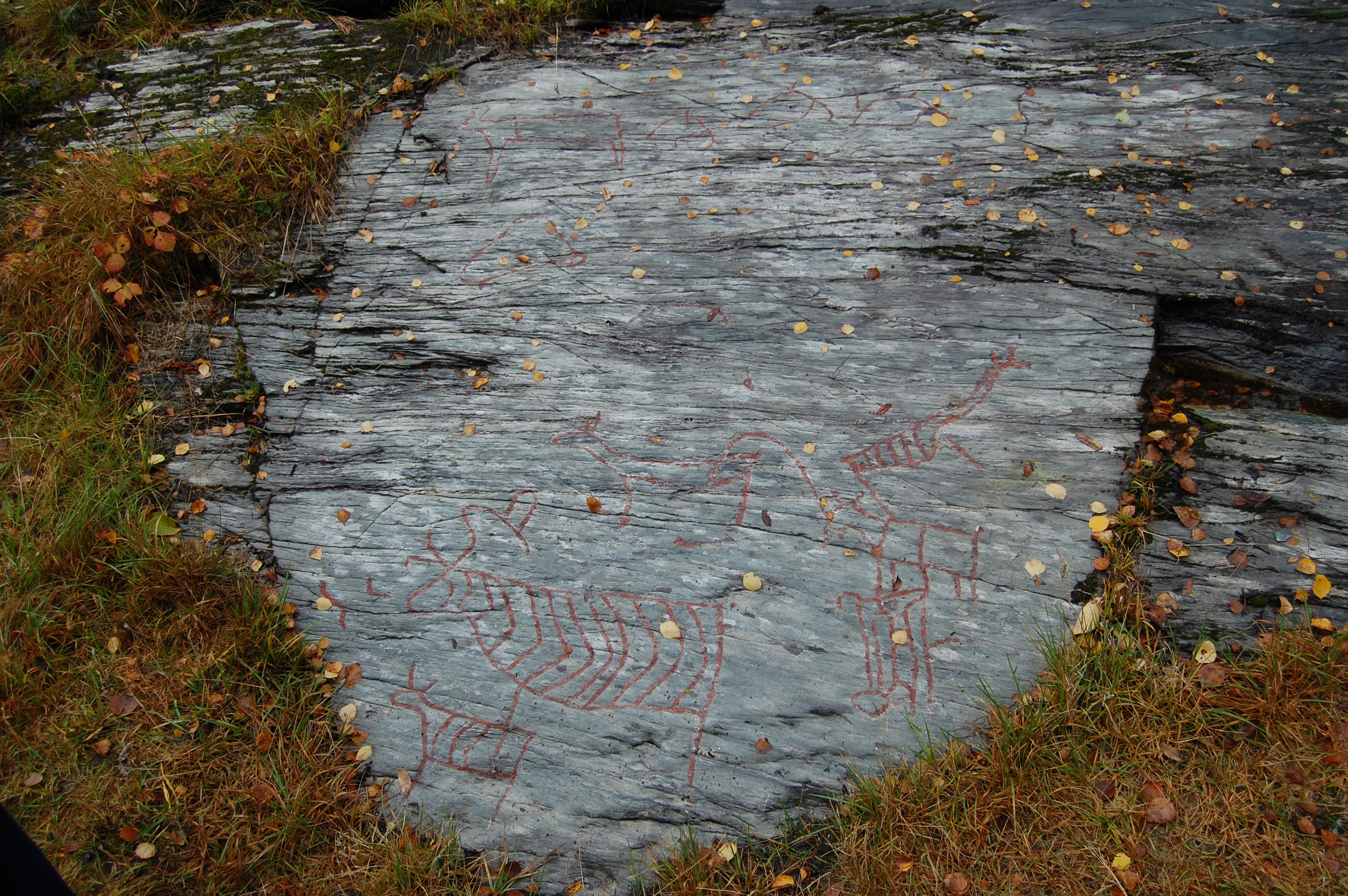 Rock carvings on the Kirkely field at Tennes in Balsfjord (Norway)